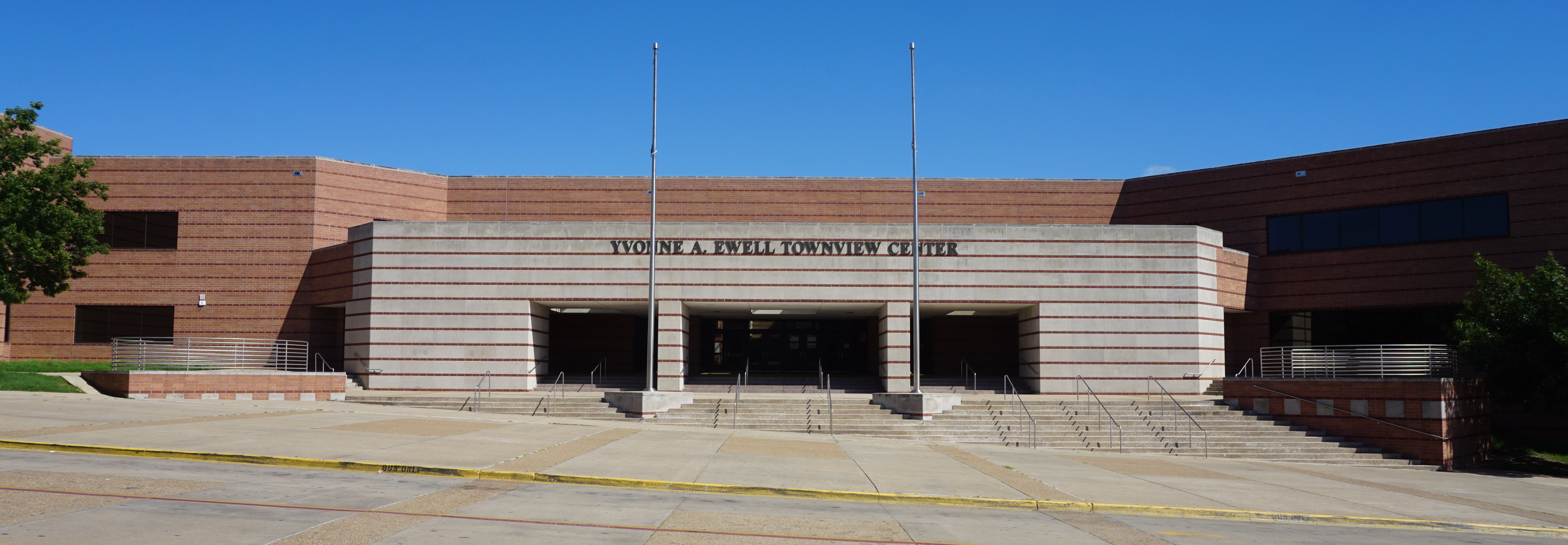 The Yvonne A. Ewell Townview Center in the Oak Cliff neighborhood in Dallas, Texas (United States).